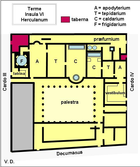 Herculanum baths map